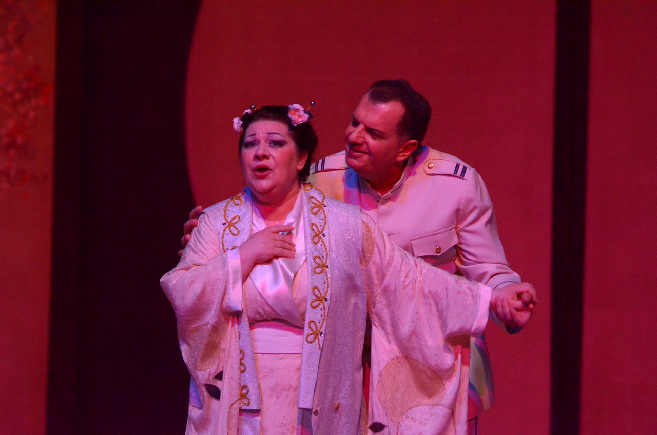 "Madam Butterfly", an opera in three acts by Giacomo Puccini; directed by Voja Soldatović; Opera of SNT, Novi Sad, 2008/09; Laura Pavlović (soprano), Janko Sinadinović (tenor) Srpski (latinica): "Madam Baterflaj", opera u tri čina Đakoma Pučinija u režiji Voje Soldatovića; Opera SNP-a, Novi Sad, 2008/09; Laura Pavlović (sopran), Janko Sinadinović (tenor) Српски (ћирилица): "Мадам Батерфлај", опера у три чина Ђакома Пучинија у режији Воје Солдатовића; Опера СНП-а, Нови Сад, 2008/09; Лаура Павловић (сопран), Јанко Синадиновић (тенор)